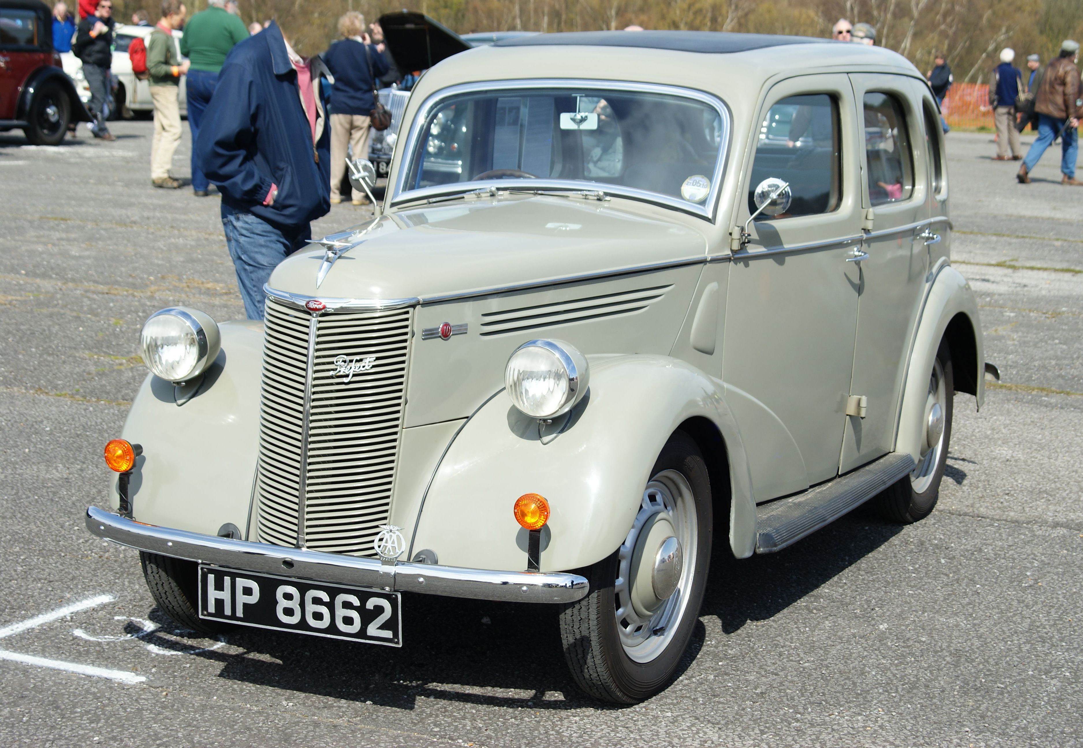 1938 Ford Prefect "Ten"